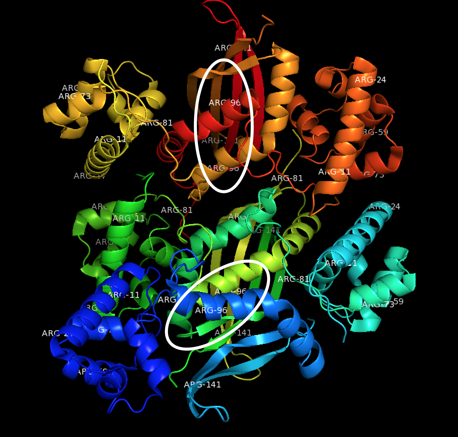 Cyanase pentamer with labeled argenine residues shown. Circles indicate active pockets where the 96th residues are argenines and provide a catalytic pocket for the enzyme mechanism to take place. Created in PyMol.